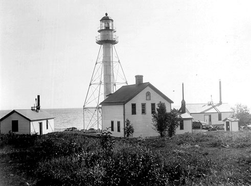 Image of the Manitou Island lighthouse